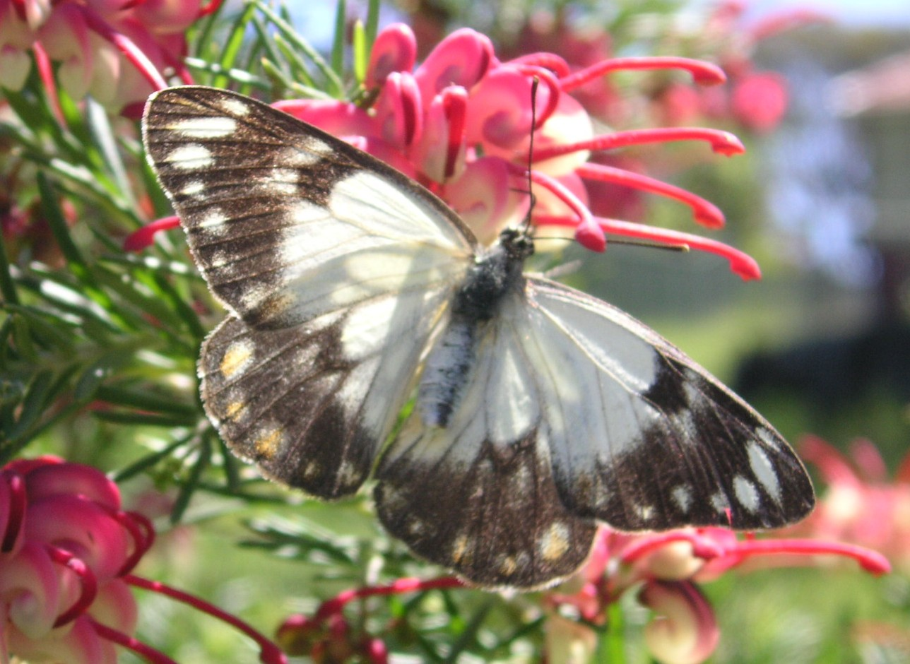 Butterfly, Anaphaeis java ssp. teutonia, on Grevillea, during northward migration of assorted whites, yellows, browns and small blues, but whites making up the vast majority. coastal NSW, Australia. Spring 2005